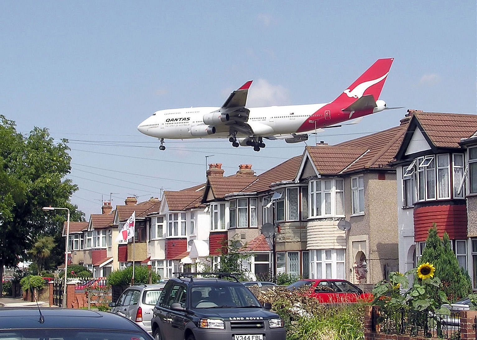 A Qantas Boeing 747-400 (registration unknown) approaching runway 27L at London Heathrow Airport, England. The houses are in Myrtle Avenue, at the south east corner of the airport. Photographers note: I know this aircraft looks as though it was inserted in a graphics program but the picture IS genuine. Aircraft pass close to Myrtle Avenue every 2 minutes when 27L is in use, so getting shots like this is easy.